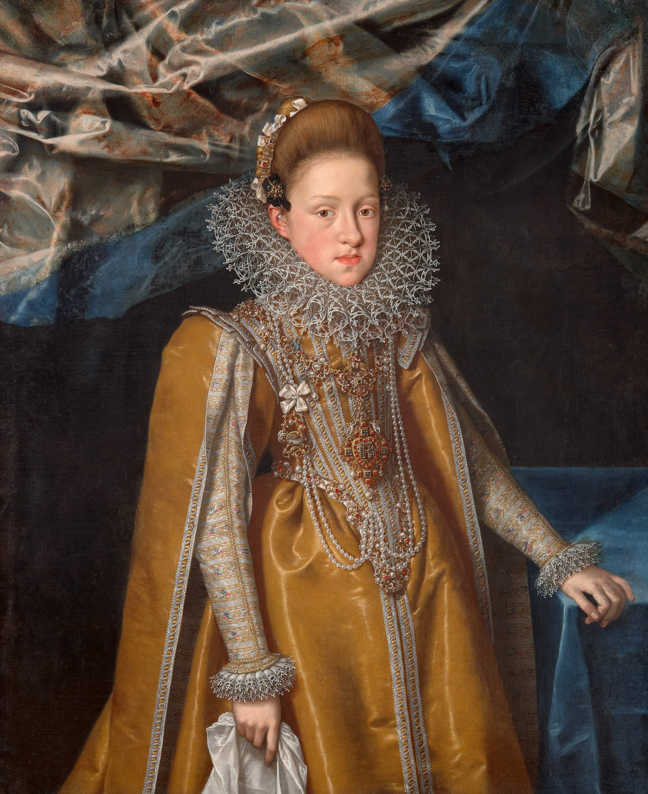 Maria Magdalena of Austria, Duchess of Tuscany, consort of wife of Duke Cosimo II, daughter of Charles II, Archduke of Austria and Ruler of Inner Austria, and Princess Mary of Bavaria. Medici of Tuskany, mother of Duke Ferdinand II. Medici of Tuscany.